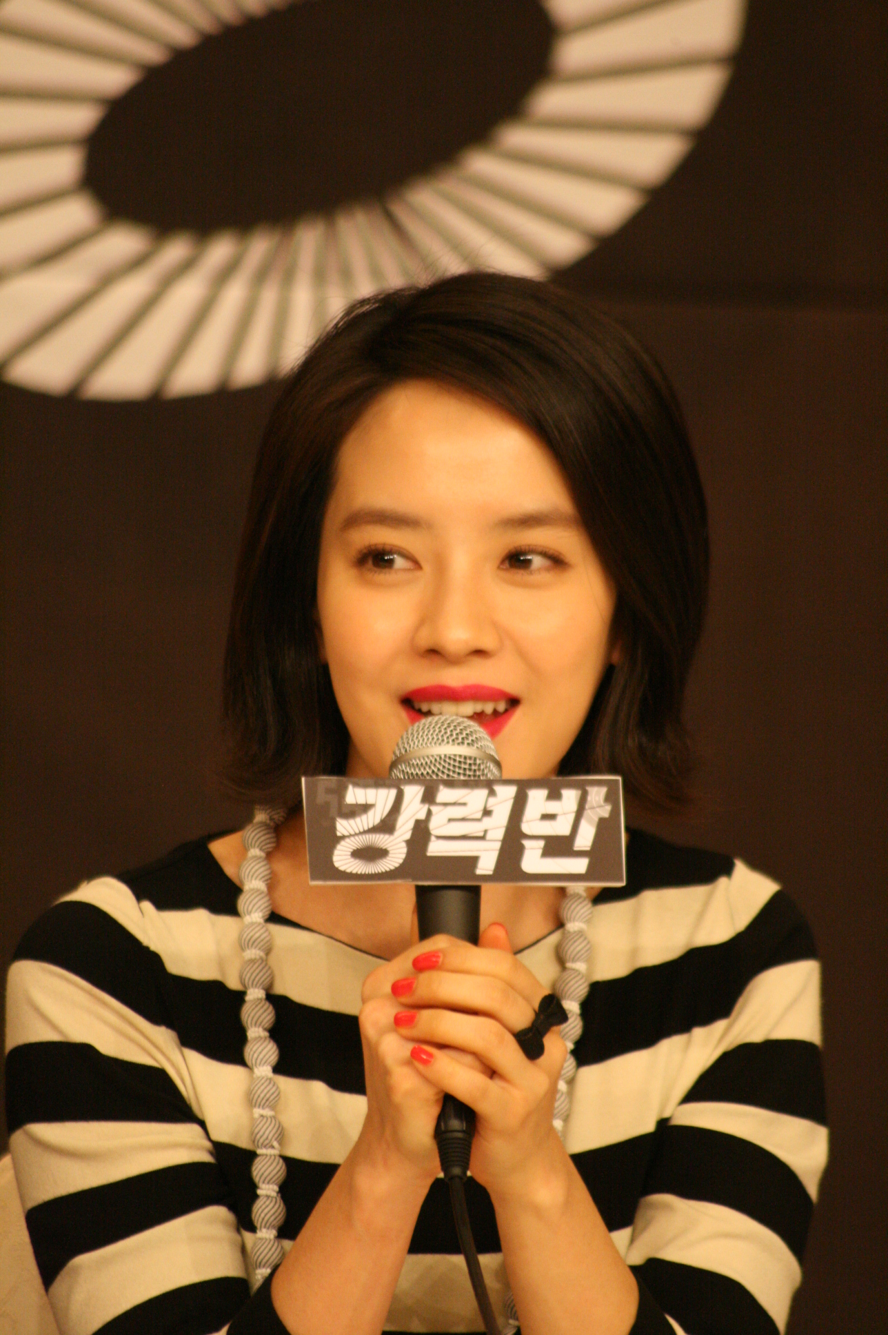 Song Ji Hyo in March 2011